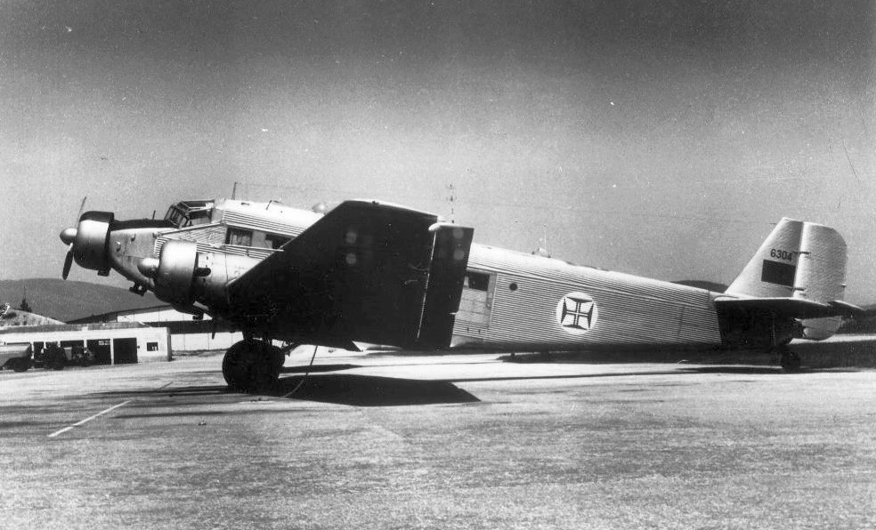 A Junkers JU-52 aircraft, operated by the Portuguese Air Force, in Tancos.